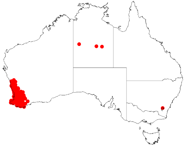 Acacia stenoptera Occurrence data from Australasia Virtual Herbarium downloaded from on 8 December 2018